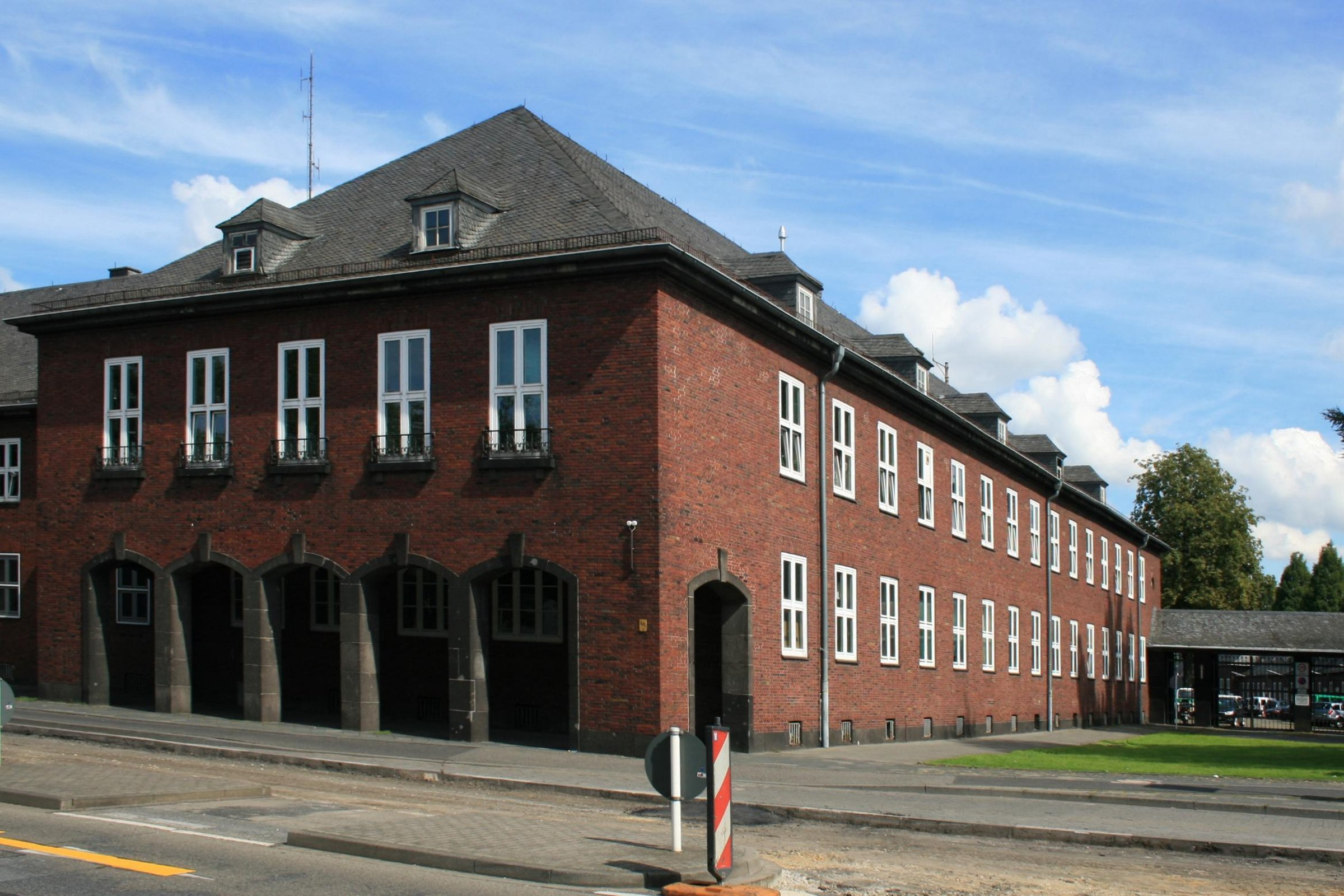 Cultural heritage monument No. T 008a in Mönchengladbach